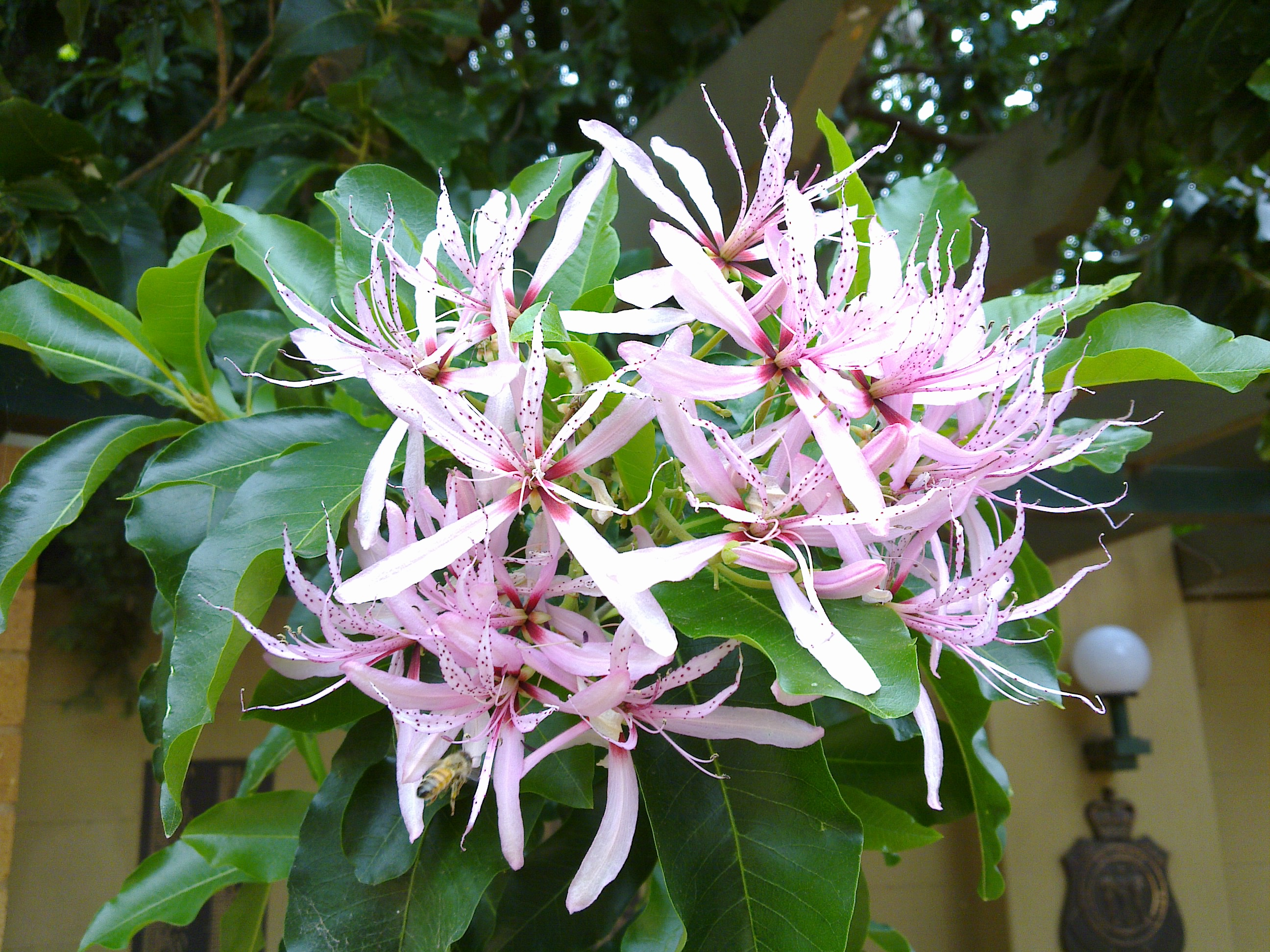 Flowers on a Calodendrum capense photographed at the Victory Memorial Gardens in Wagga Wagga, New South Wales, Australia.